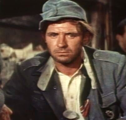 Jock Mahoney in A Time to Love and a Time to Die - trailer (cropped screenshot)